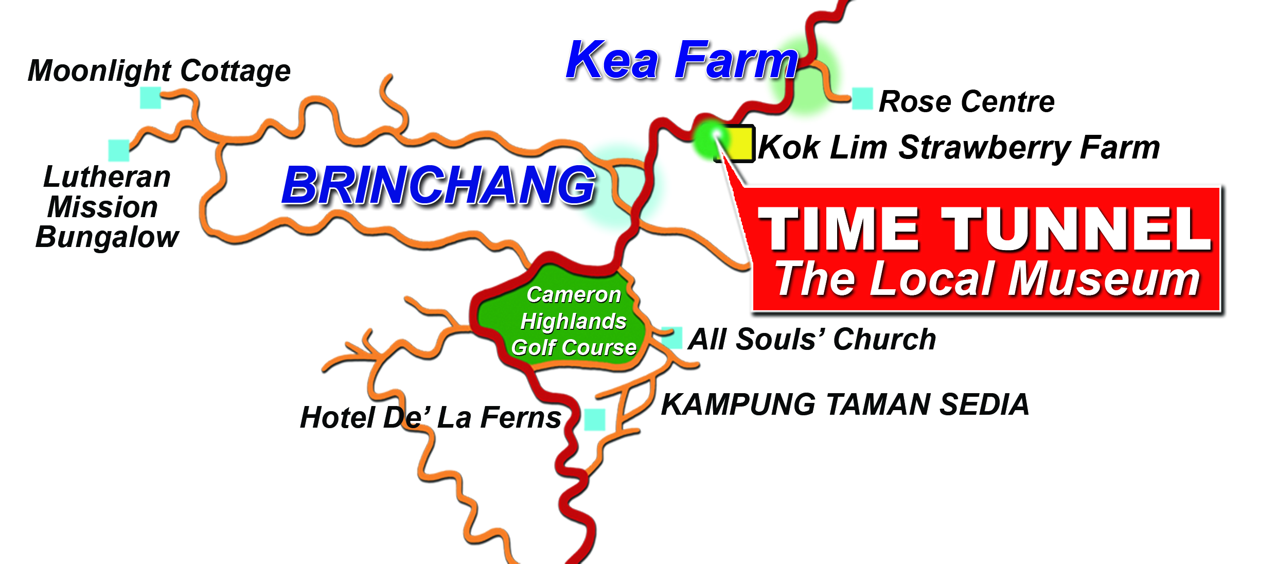 Location map of TIME TUNNEL museum, Cameron Highlands, Pahang, West Malaysia.